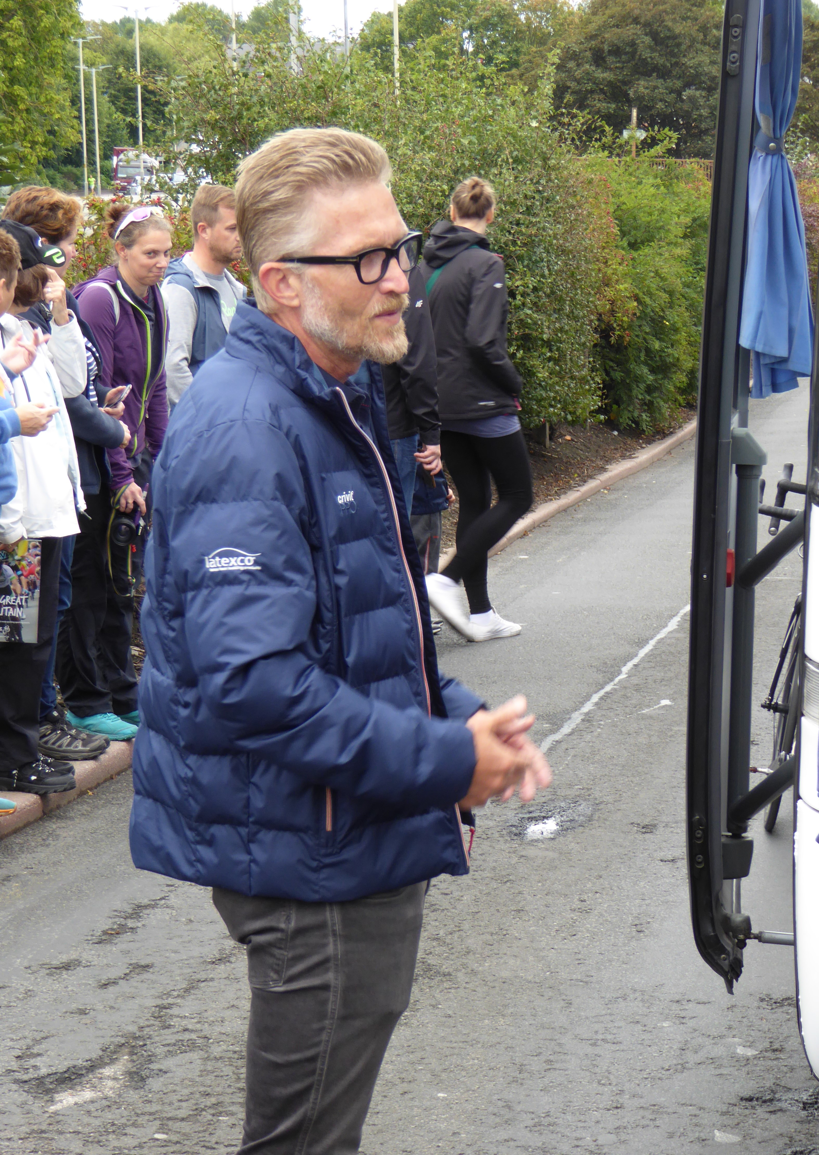 Brian Holm (Etixx-Quick Step DS), pictured before Stage 2 of the 2016 Tour of Britain in Carlisle on 5 September 2016.